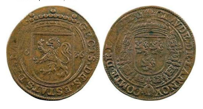 Coin (copper) of 1636, issued by the 'states' (parliament) of the County of Namur (present-day Belgium) with coat of arms of Claude de Lannoy, count de la Motterie, acting governor of the county. Tekst: GECTS. DES. ESTATS. DE. NAMVR. Reverse: CLAVDE. DE. LANNOY. - .COMTE. DE. LA. MOTTRY.